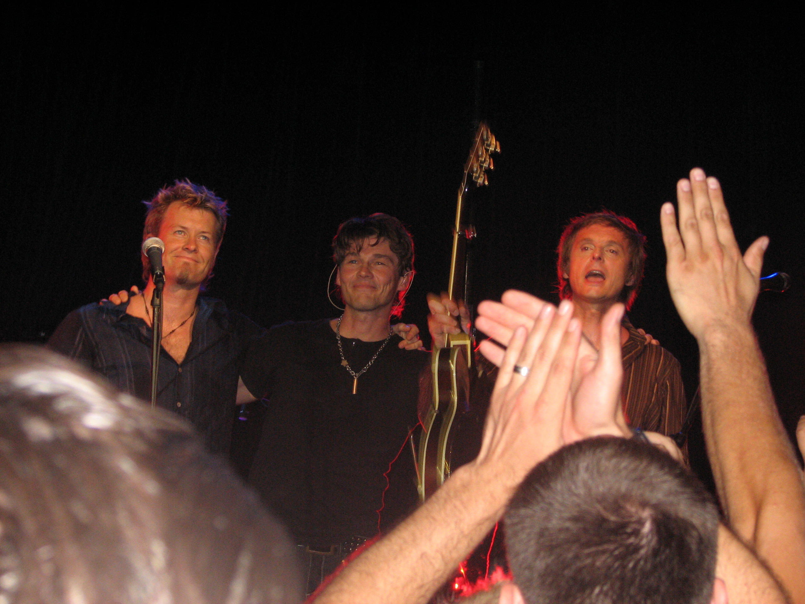 A-ha at Irving Plaza, New York City